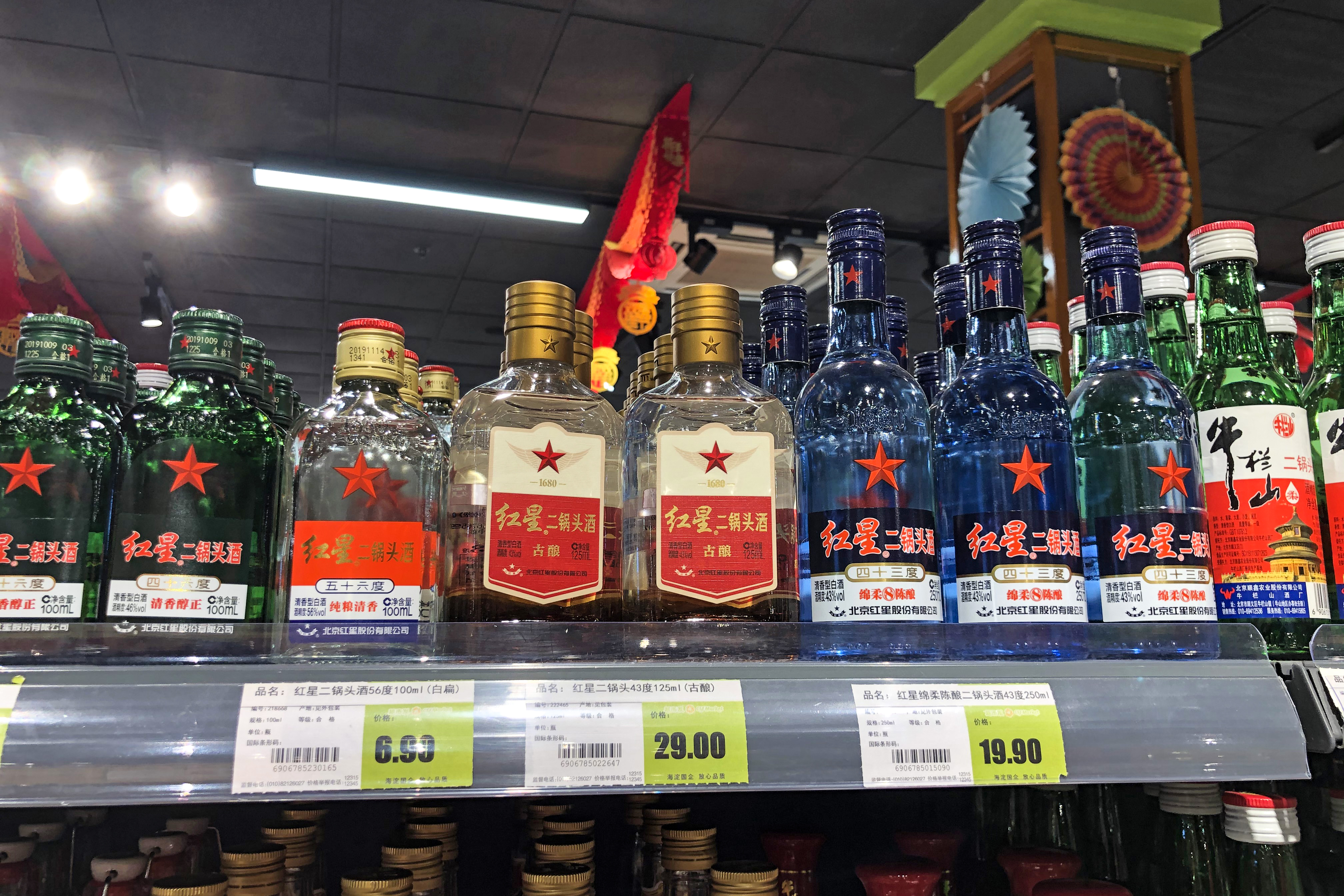 In Beijing, local citizens call this 100mL Erguotou "Xiao'er" (小二), literally "small Erguotou".